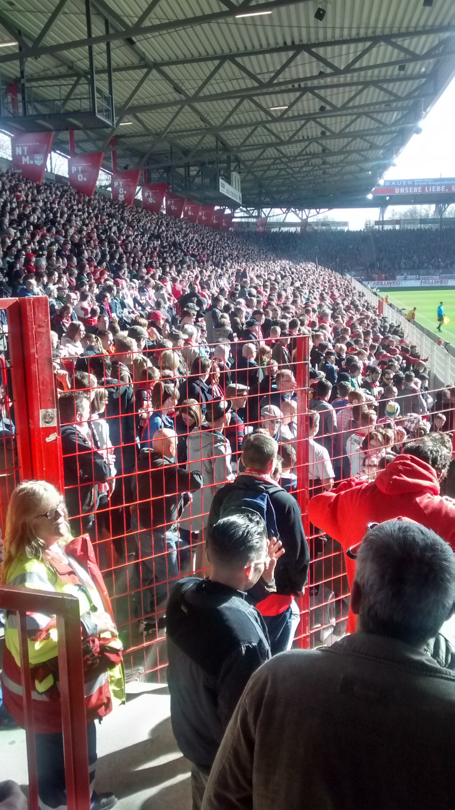 ‘Sektor 3′ – Gegengerade at the Alte forsterei, Berlin